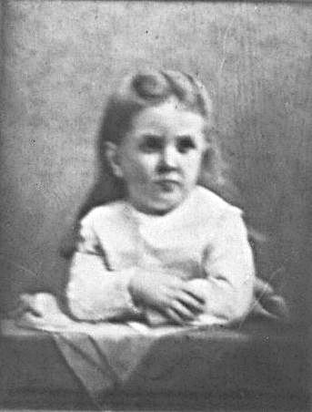 Katie McKinley, daughter of William McKinley.